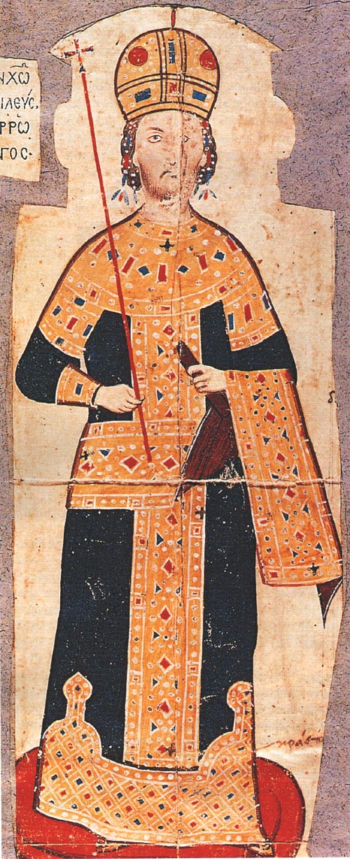 Andronikos III Palaiologos, Byzantine Emperor. 14th-c. miniature. Stuttgart, Württembergische Landesbibliothek, Cod. hist. 2° 601, fol. 2r (digital copy)